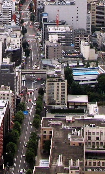 View of the Gaien-Higashi-dori street in Roppongi, Tokyo, from the Tokyo Tower.